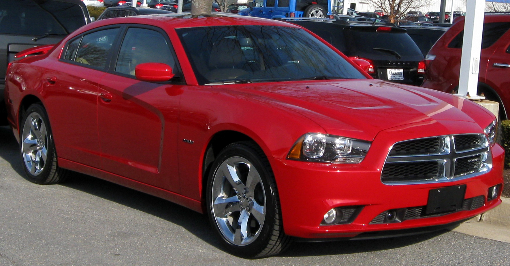 2012 Dodge Charger R/T photographed in Clarksville, Maryland, USA.